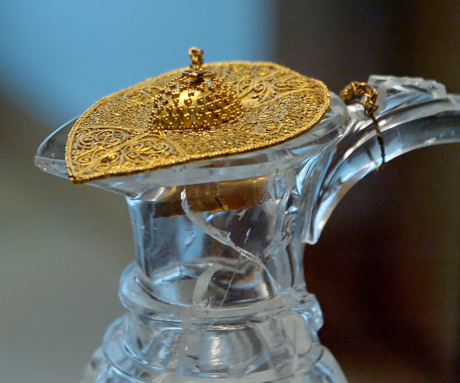 Ewer with birds, detail of the lid. Body: rock crystal (Fatimid art, late 10th century–early 11th century); lid: filigreed gold (Italy, 11th century). From the Treasure of Saint-Denis.